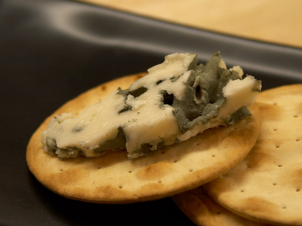 Roquefort Cheese